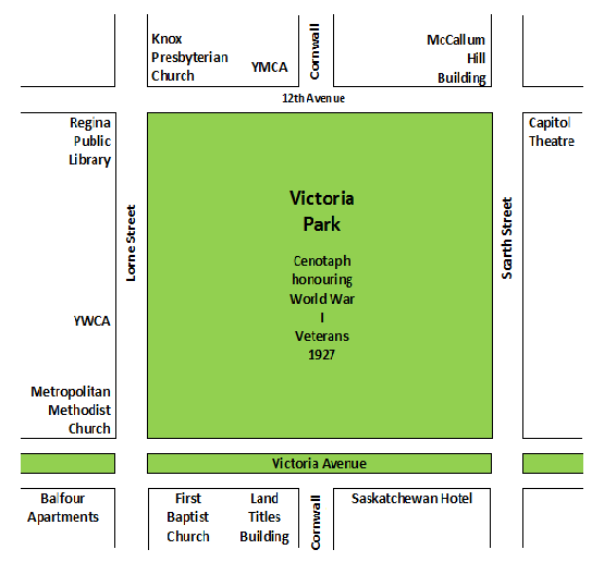 Map of Victoria Park and surrounding buildings, Regina, circa 1927